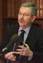 David Kay at a 2002 press conference